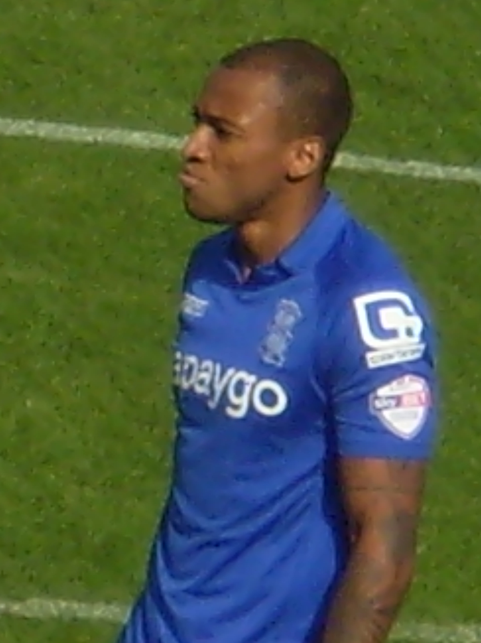 Wes Thomas of Birmingham City F.C. during a match at Brentford F.C. in August 2014